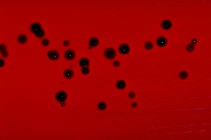 Blood agar plate culture of Chromobacterium violaceum.